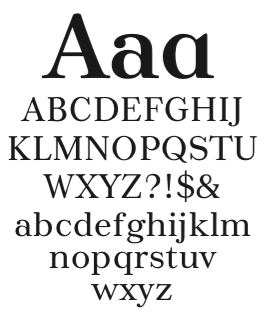 Tusar’s antiqua (1924–5), digitized by František Štorm as Tusar (2004)